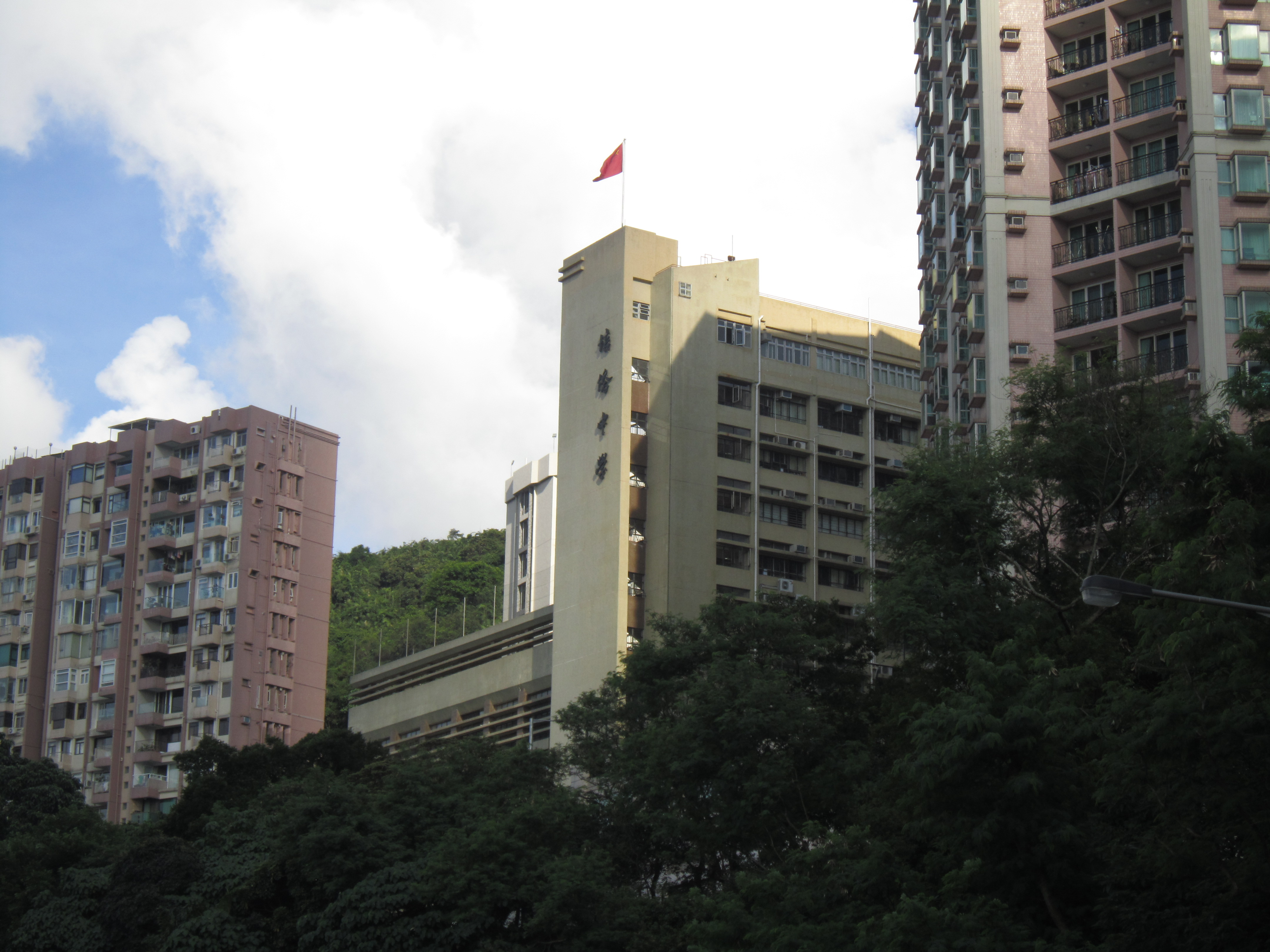 PKMS campus